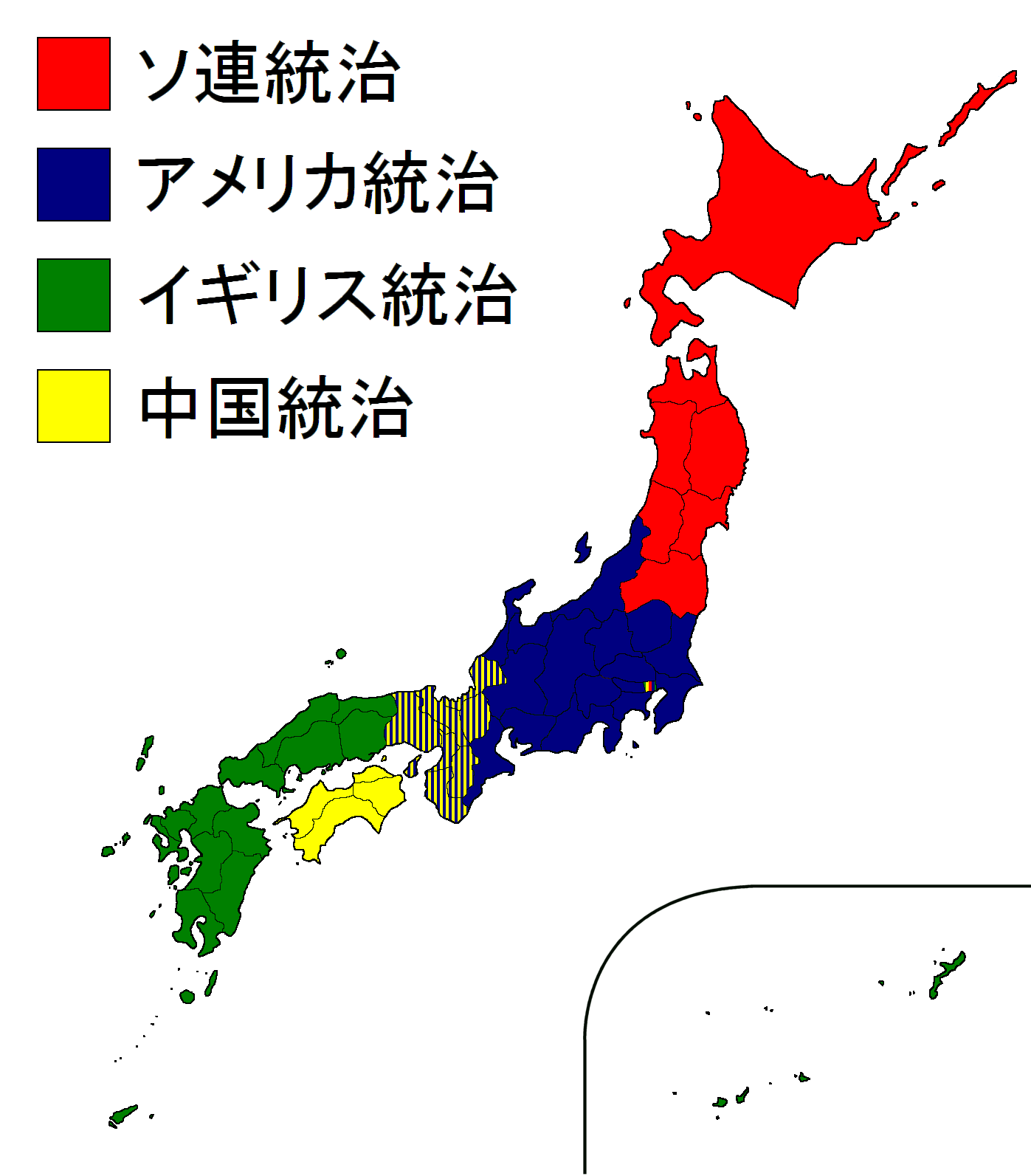 Divide-and-rule plan of Japan